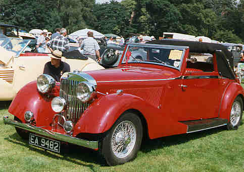 1938 3.5 litre Jensen photographed by Malcolm Asquith and released into the public domain.